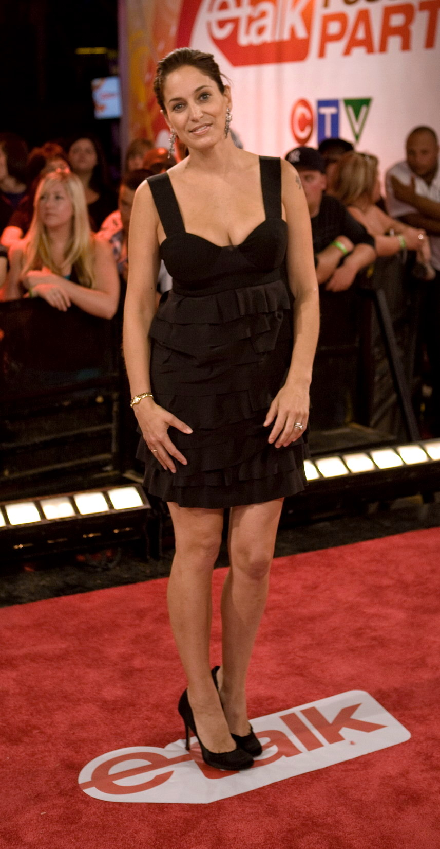 Chantal Kreviazuk at the eTalk Festival Party, during the Toronto International Film Festival.